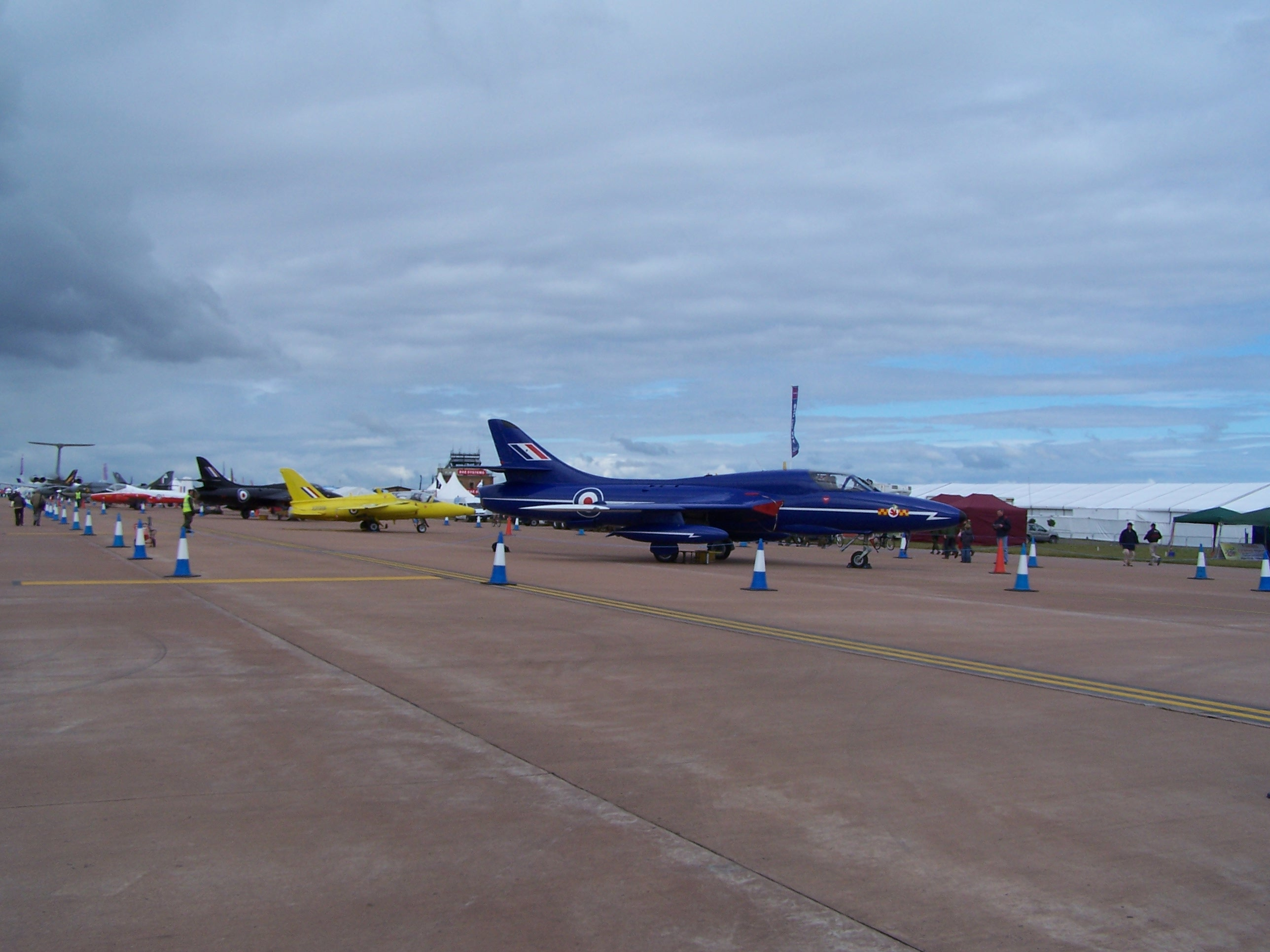 Inside the RIAT 2008 static display area, on what would have been opening day, but cancelled due to inclement weather. Only a small number of staff can be seen walking the show ground.